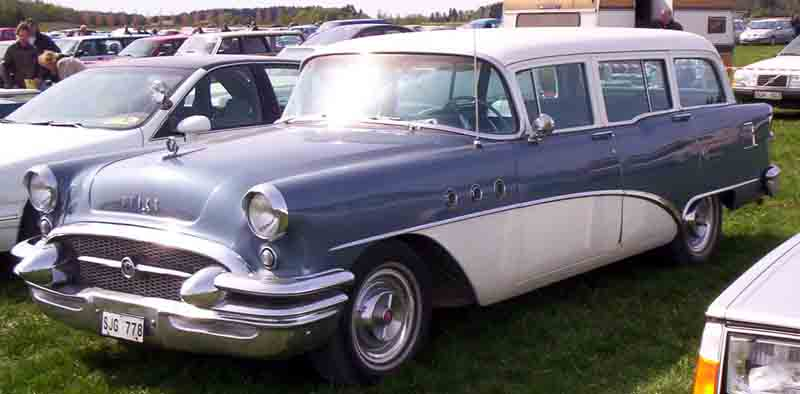 1955 Buick Special Series 40 Model 49 4-door Station Wagon